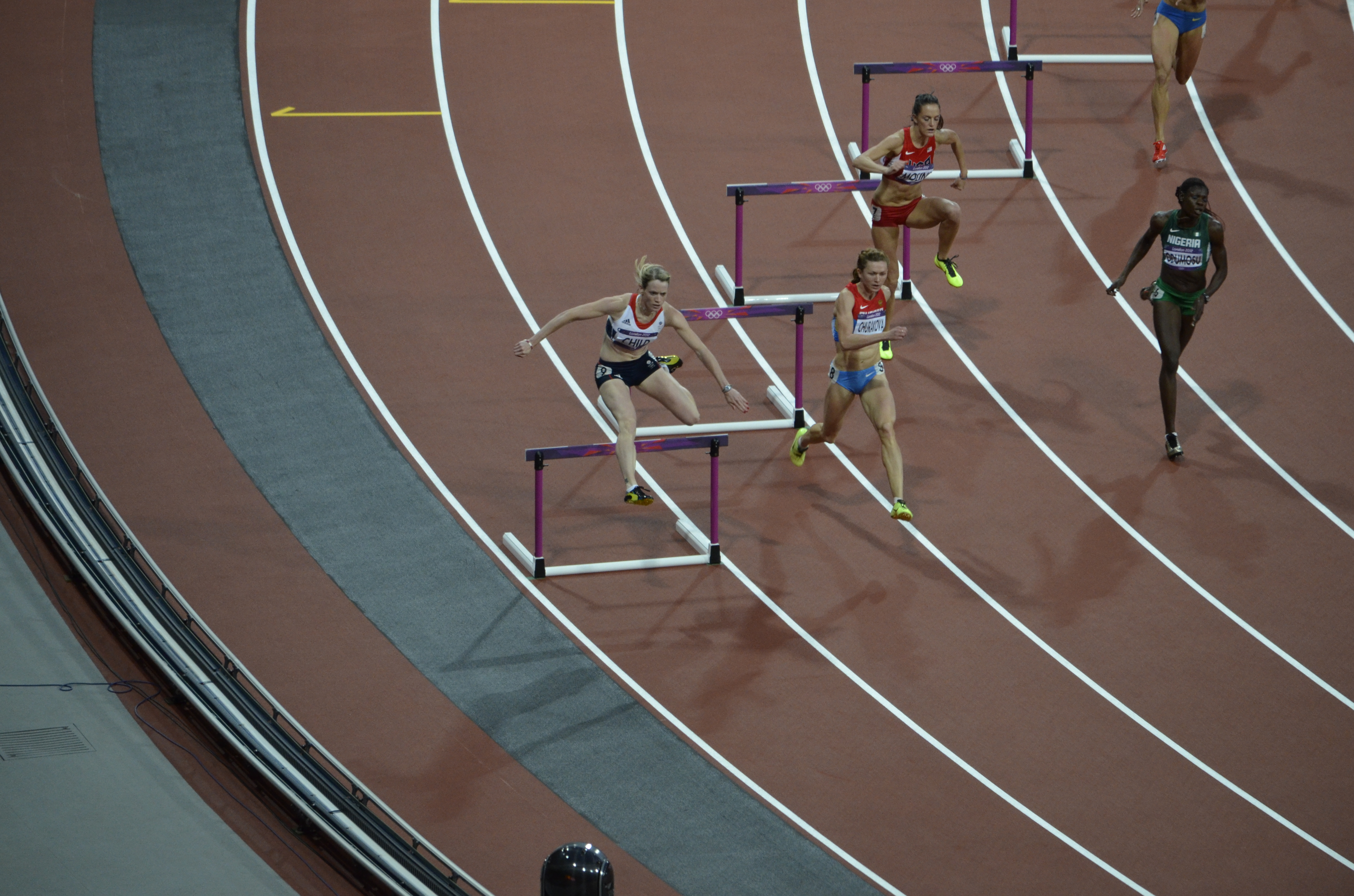 Womens 400m hurdles semi-final - 2012 Summer Olympics, Eilidh Child, Elena Churakova, Georganne Moline, Muizat Ajoke Odumosu